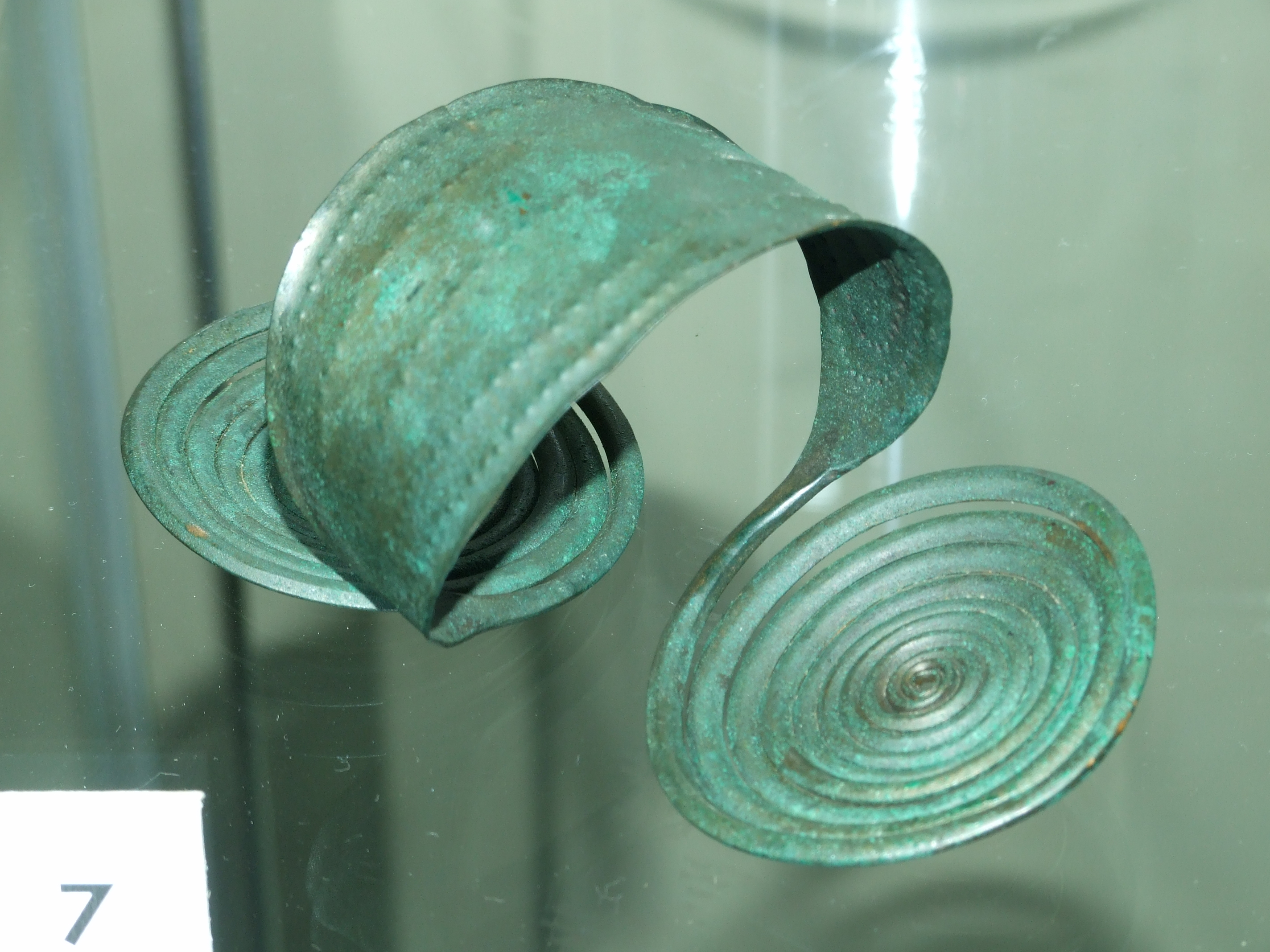 Bronze bracelet (Jenišovice, Late Bronze Age). Prehistoric Times of Bohemia, Moravia and Slovakia, National Museum in Prague